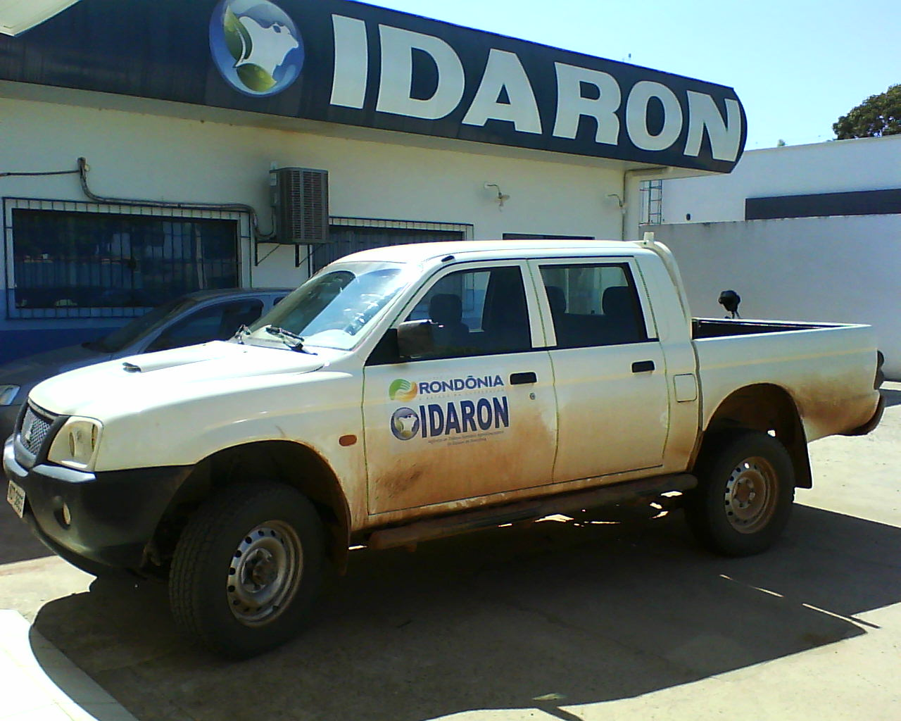 IDARON Pimenta Bueno Regional Truck L200 White